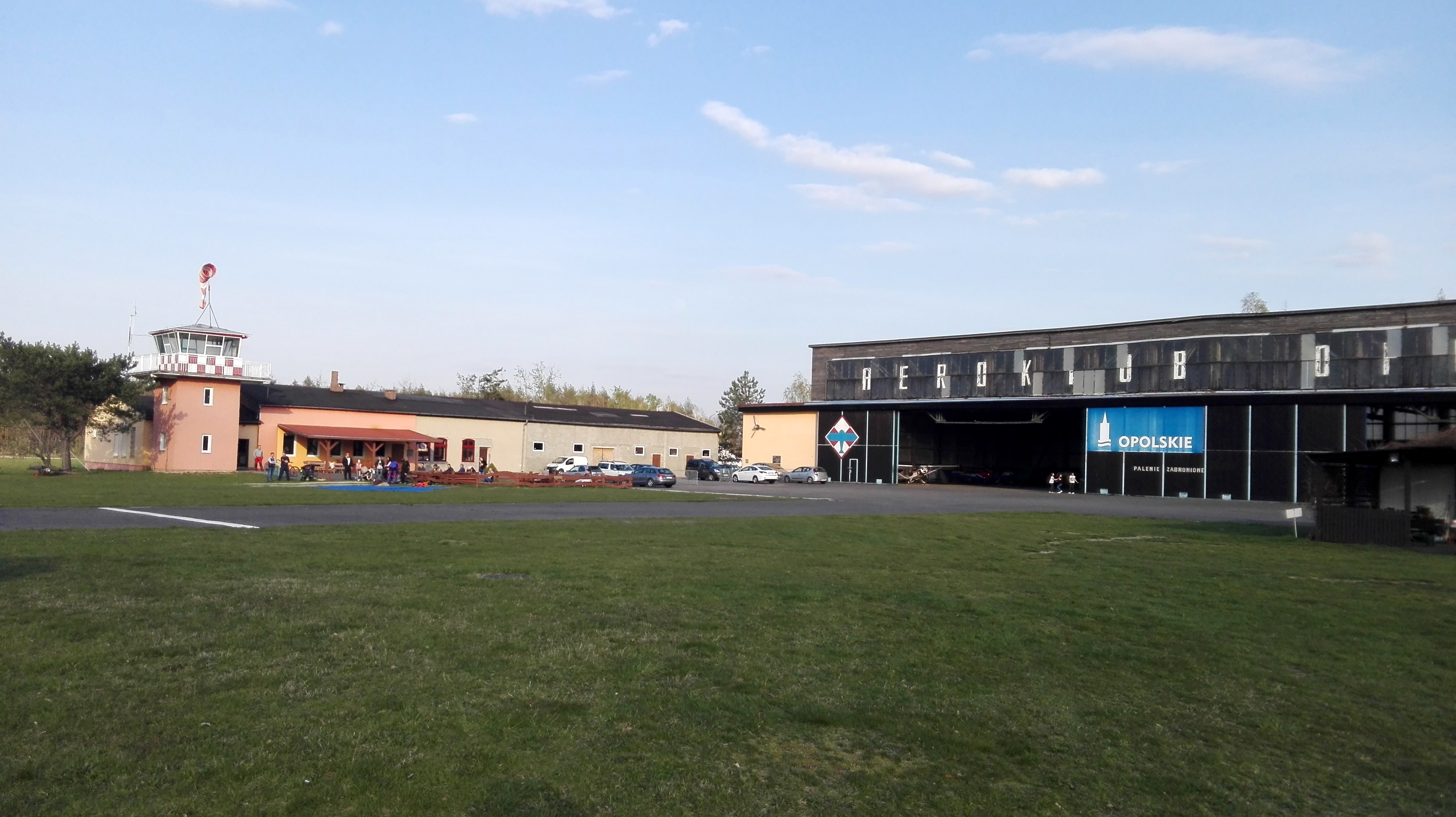 Airfield EPOP in Polska Nowa Wieś, Poland